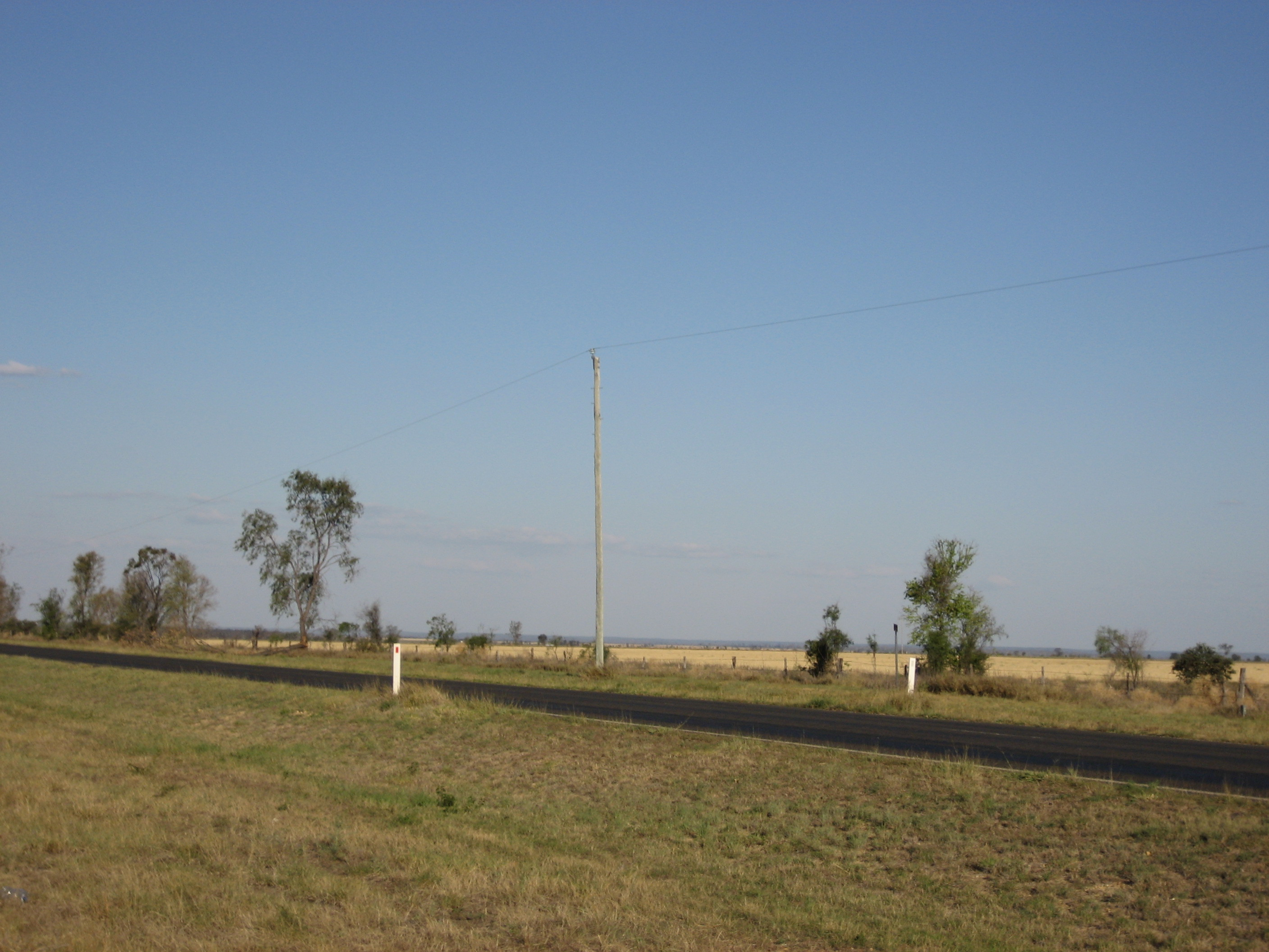 SWER (Single wire earth return) power line on Lilyvale Road, near Emerald, Queensland